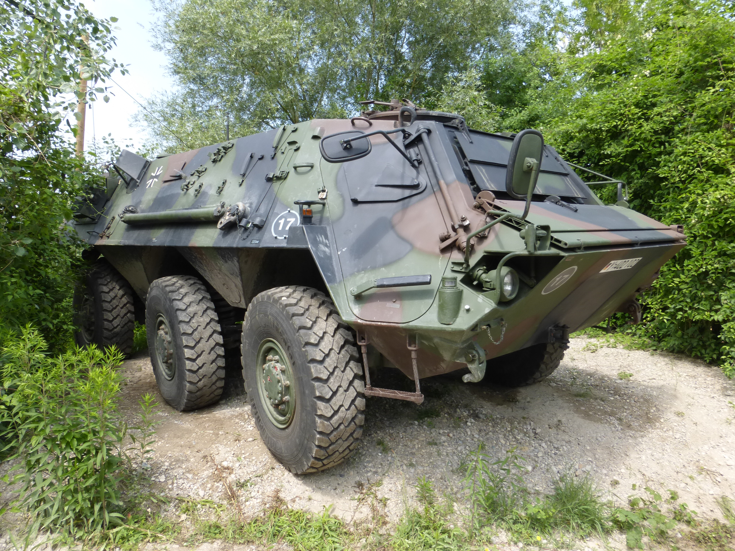 Amphibious armoured vehicle "Fuchs" at the "Day of the Bundeswehr 2018" in Ingolstadt, Bavaria